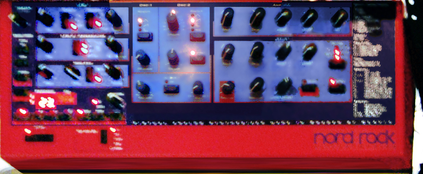 Clavia Nord Rack